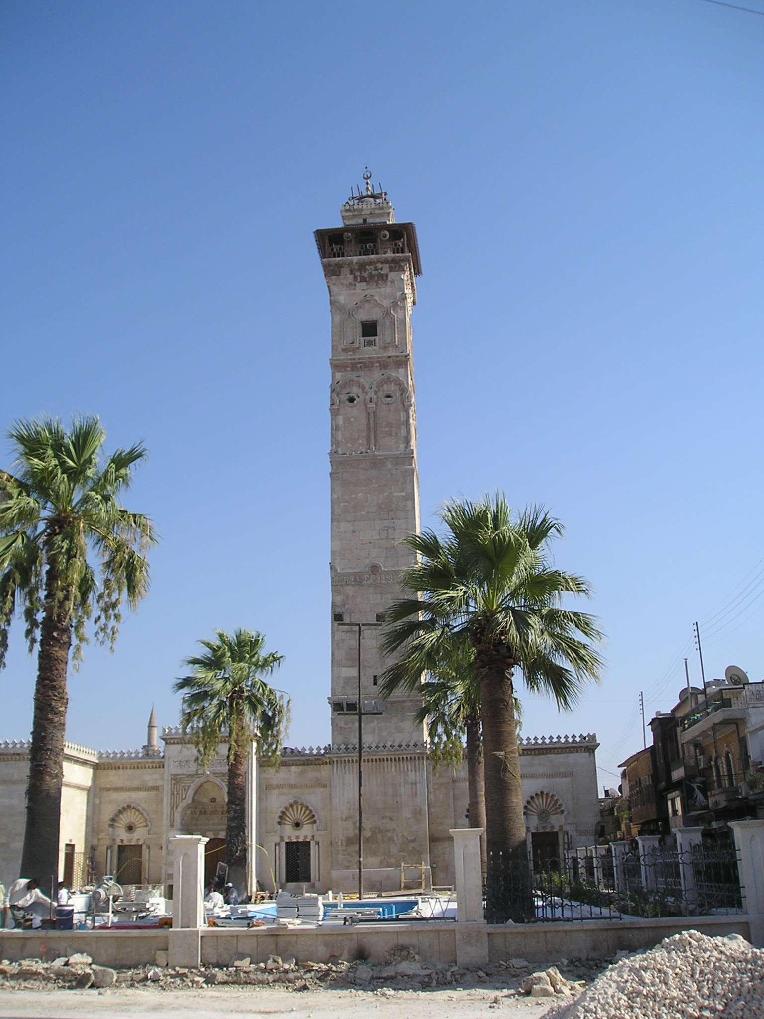 Aleppo, Syria - the minaret of the Great Mosque